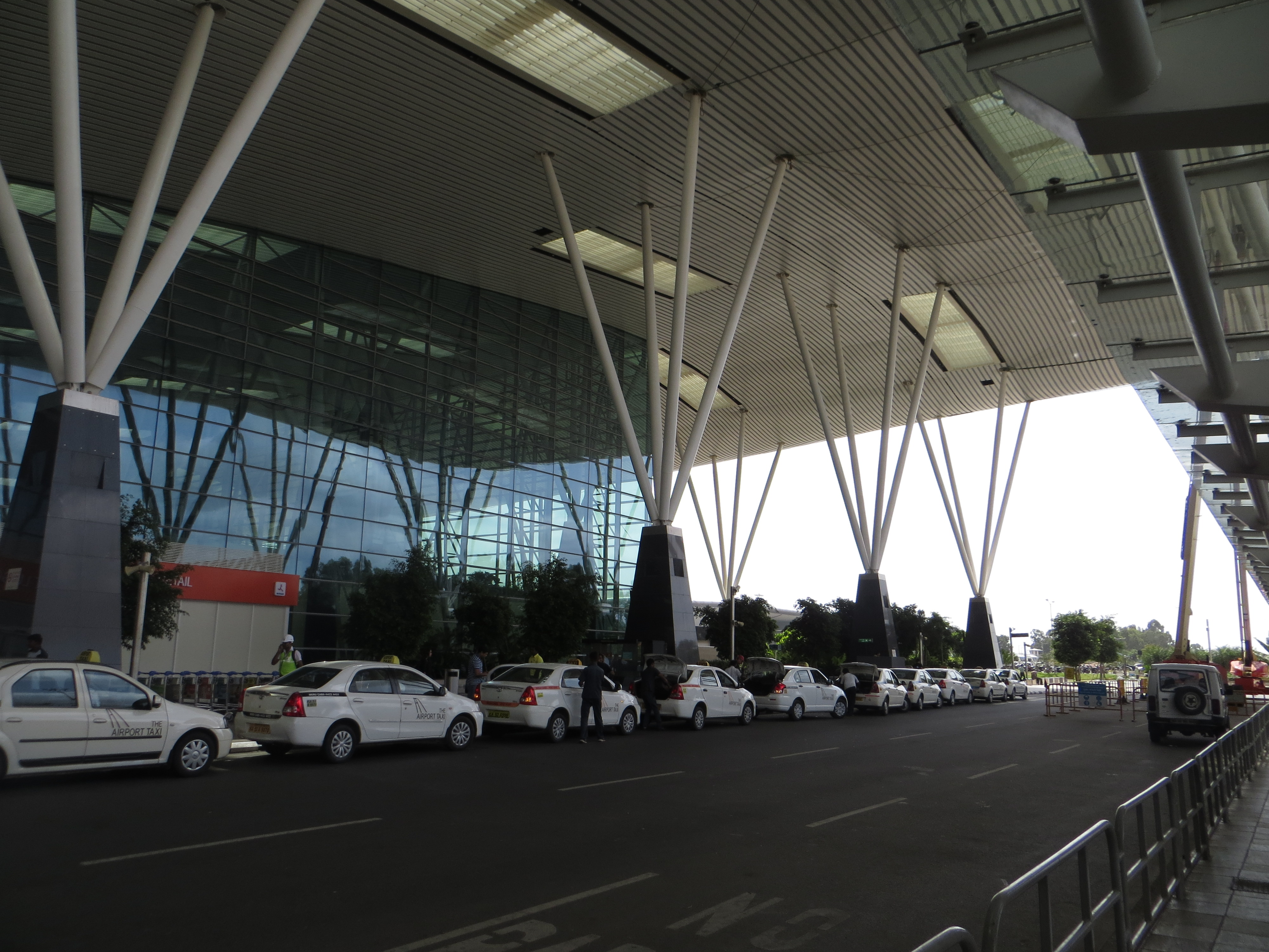 The far end of the terminal at Kempegowda Int'l Airport (BLR), Bengaluru.